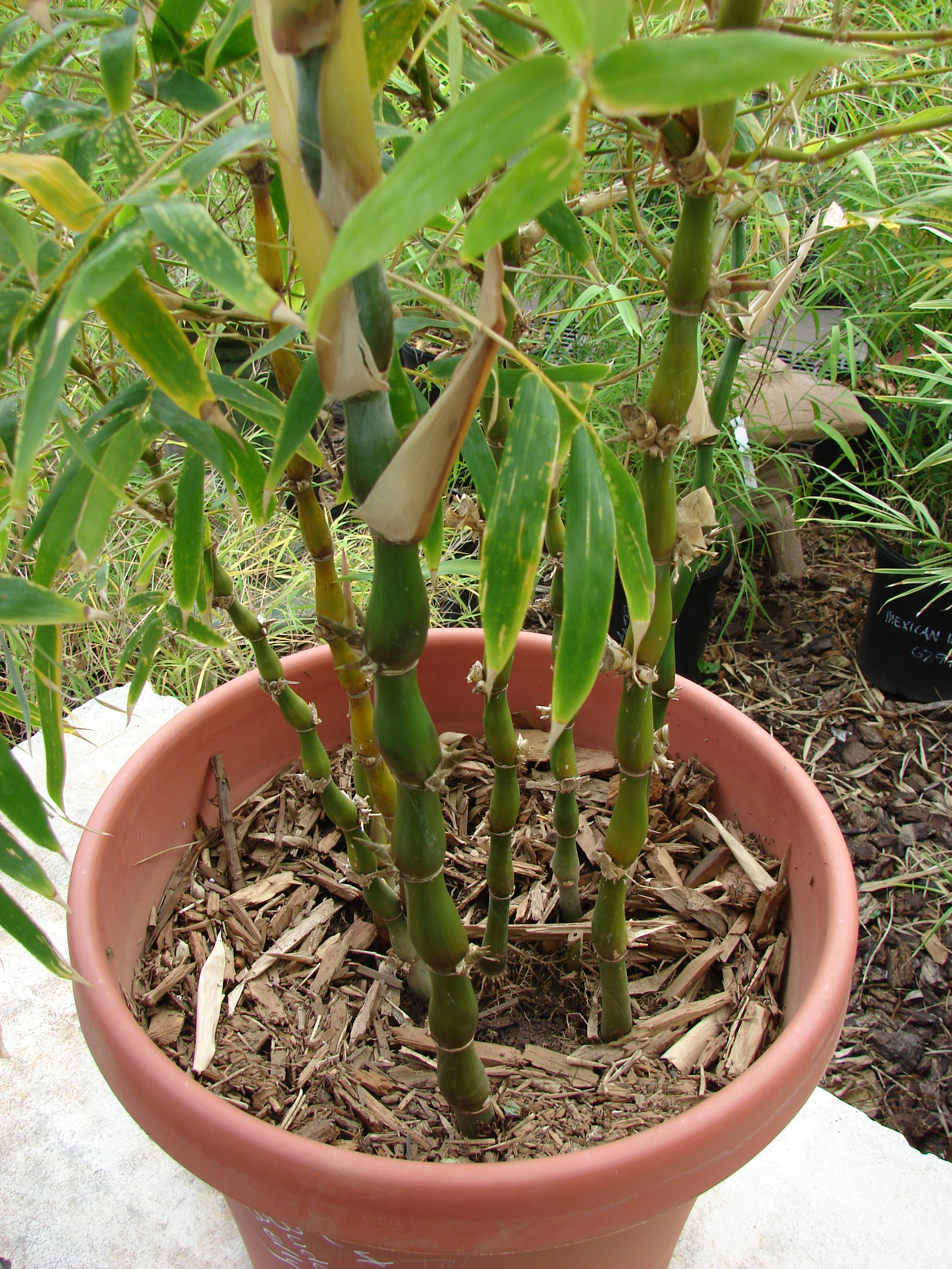 Bambusa ventricosa (habit). Location: Maui, Kula Ace Hardware and Nursery